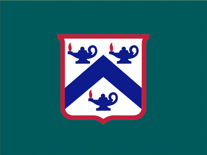 The flag for the Combined Arms Center and Fort Leavenworth is teal blue with yellow fringe. The shoulder sleeve insignia is centered on the flag (TIOH drawing 5-1-76).